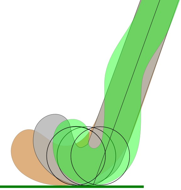 Illustration of hitting position of ball on differing head lengths.